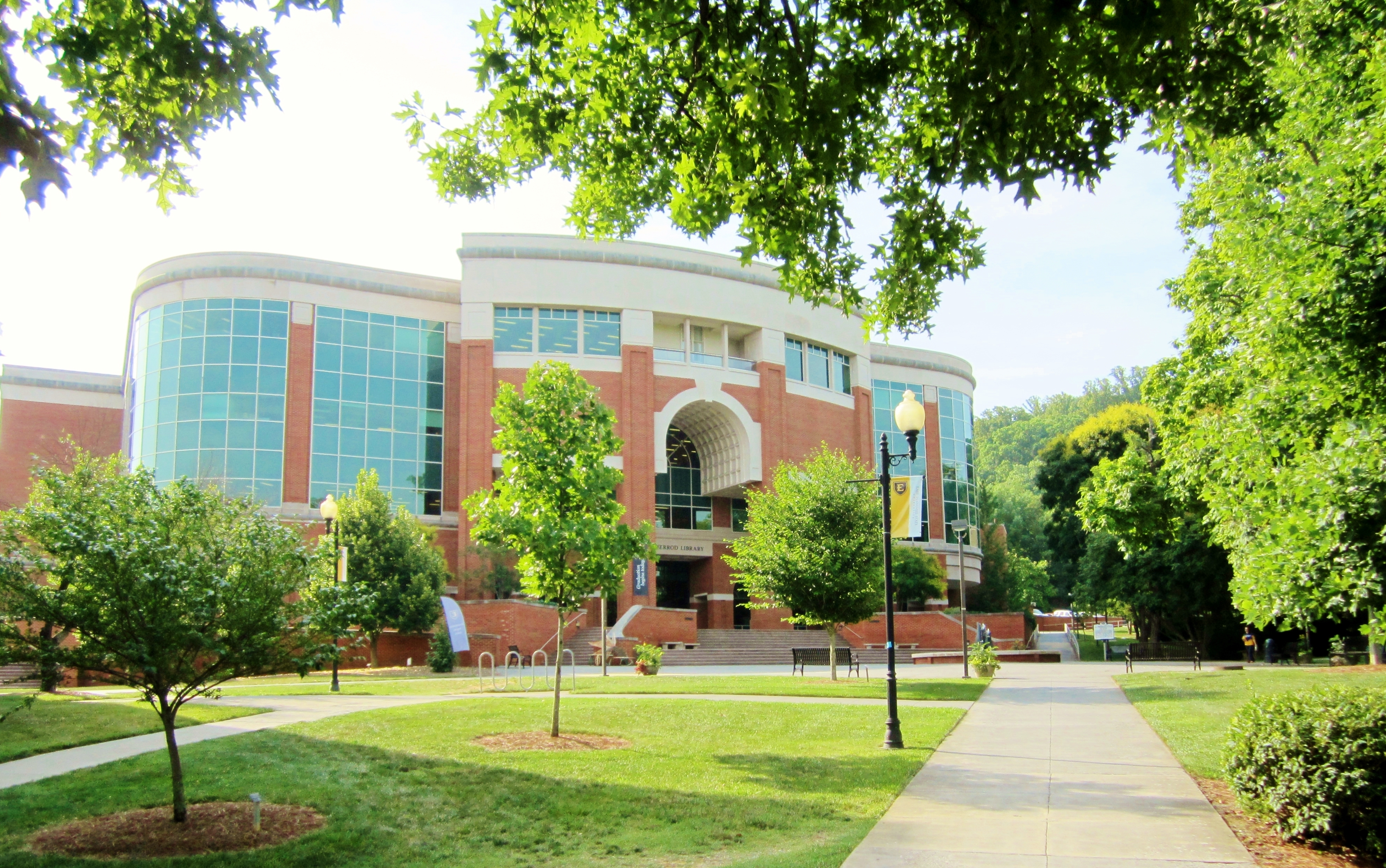 ETSU main library